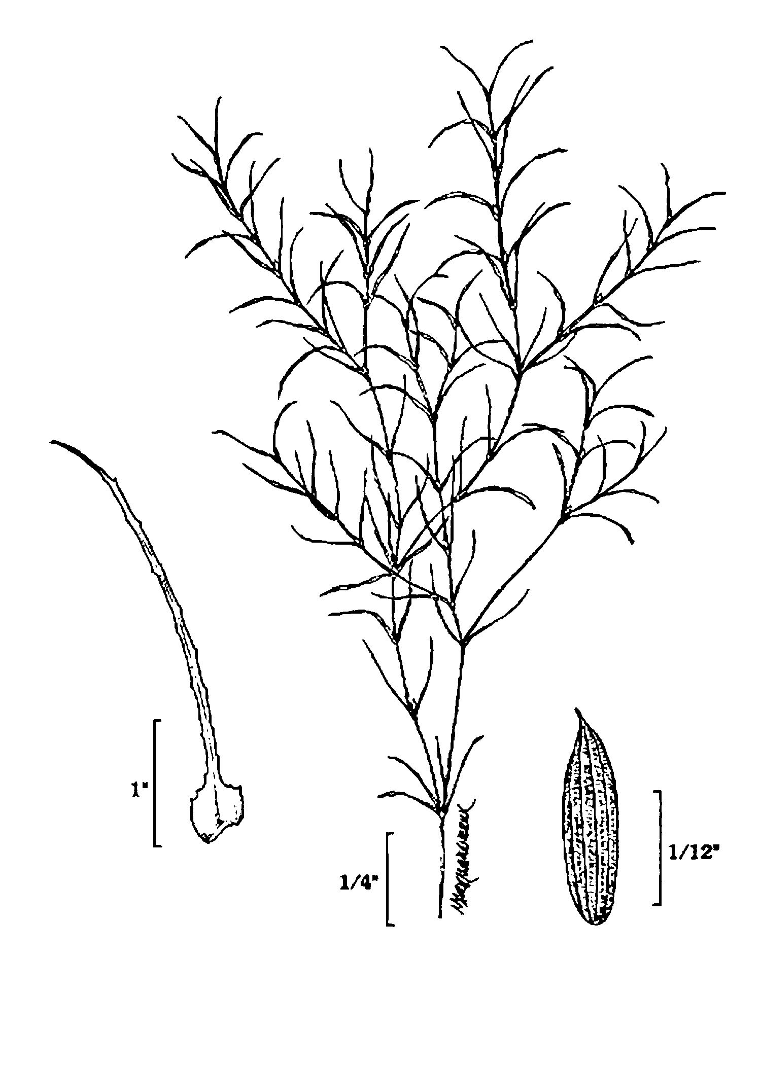 Najas minor